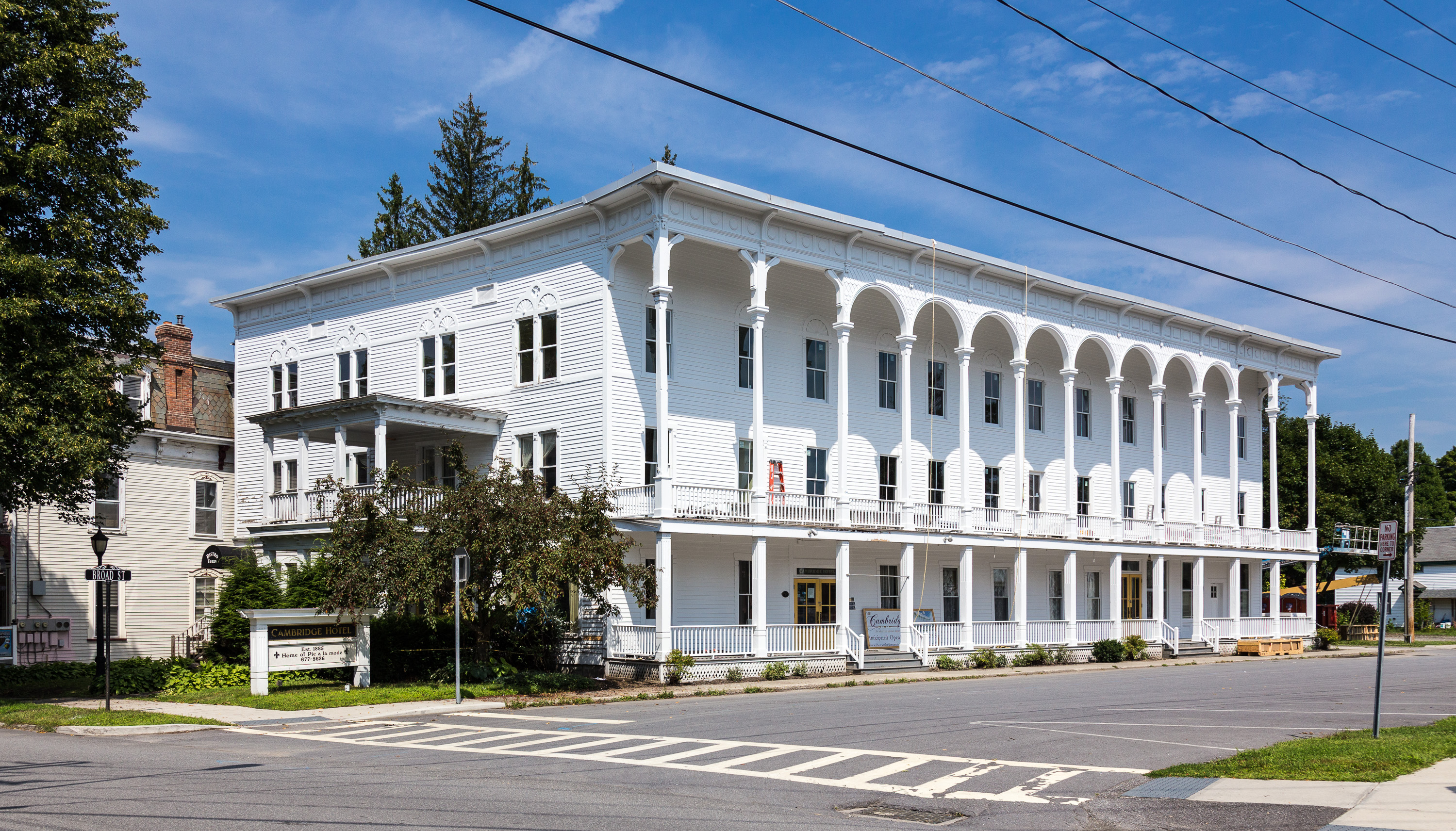 Cambridge Hotel, Main & Broad St, Cambridge, NY. Part of Cambridge Historic District, NRHP 78001922.